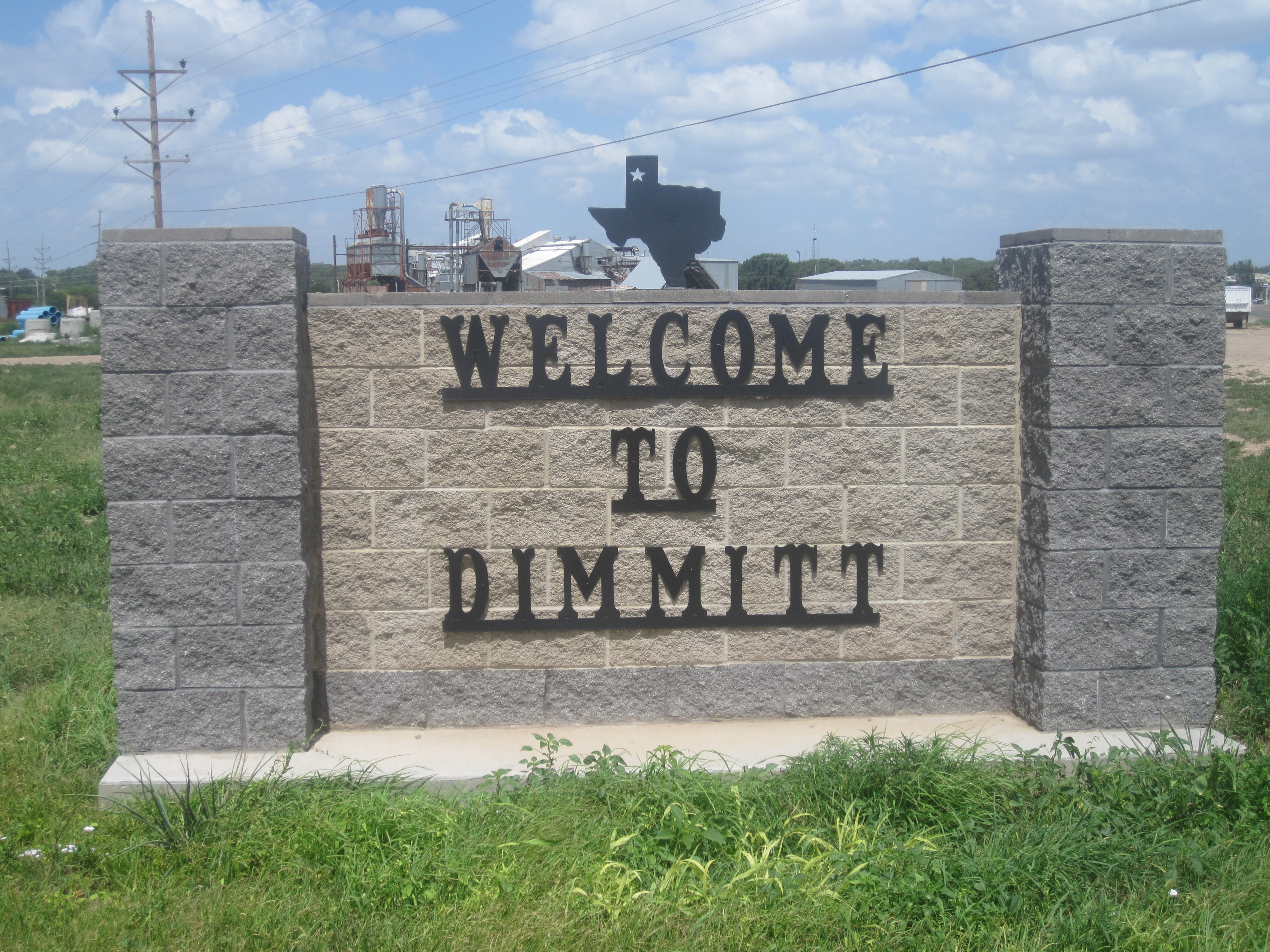 I took photo in Dimmitt, TX, with Canon camera.